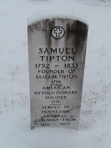 Gravestone of Samuel Tipton, "Founder of Elizabethton" located at the Green Hill Cemetery in Elizabethton, Tennessee (West Mill Street). January 12, 2010. It is my understanding that Carter County was originally named Tipton County in honor of this fellow during the period of the Lost State of Franklin] (that is to say, during the 1780s and before the State of Tennessee was admitted into the United States).